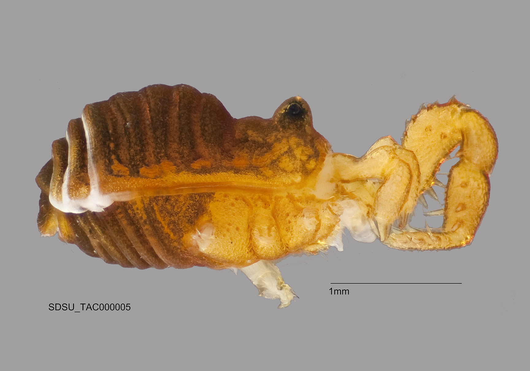 Sclerobunus idahoensis Briggs, 1971; PRESERVED_SPECIMEN; MALE; ADULT; 25/07/2011 00:00; Identified by: S. Derkarabetian